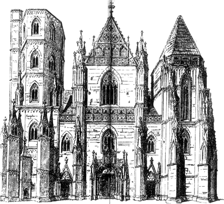 West portal of St Elisabeth Cathedral in Košice by Imrich Henszlmann